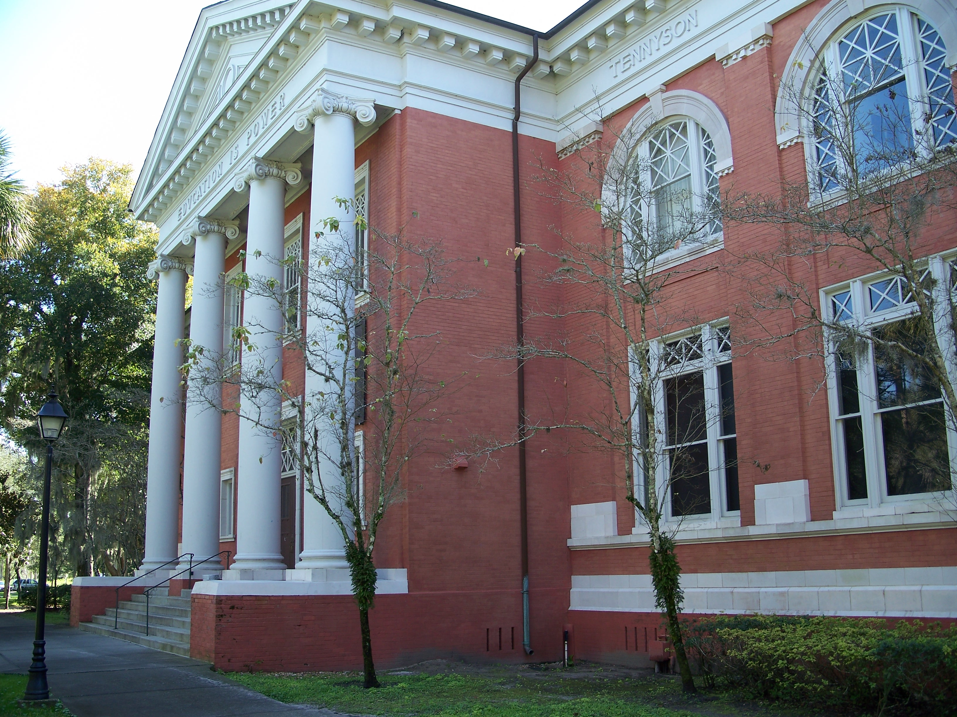 Sampson Hall on Stetson University campus, in DeLand, Florida. The Duncan Gallery of Art is located inside.